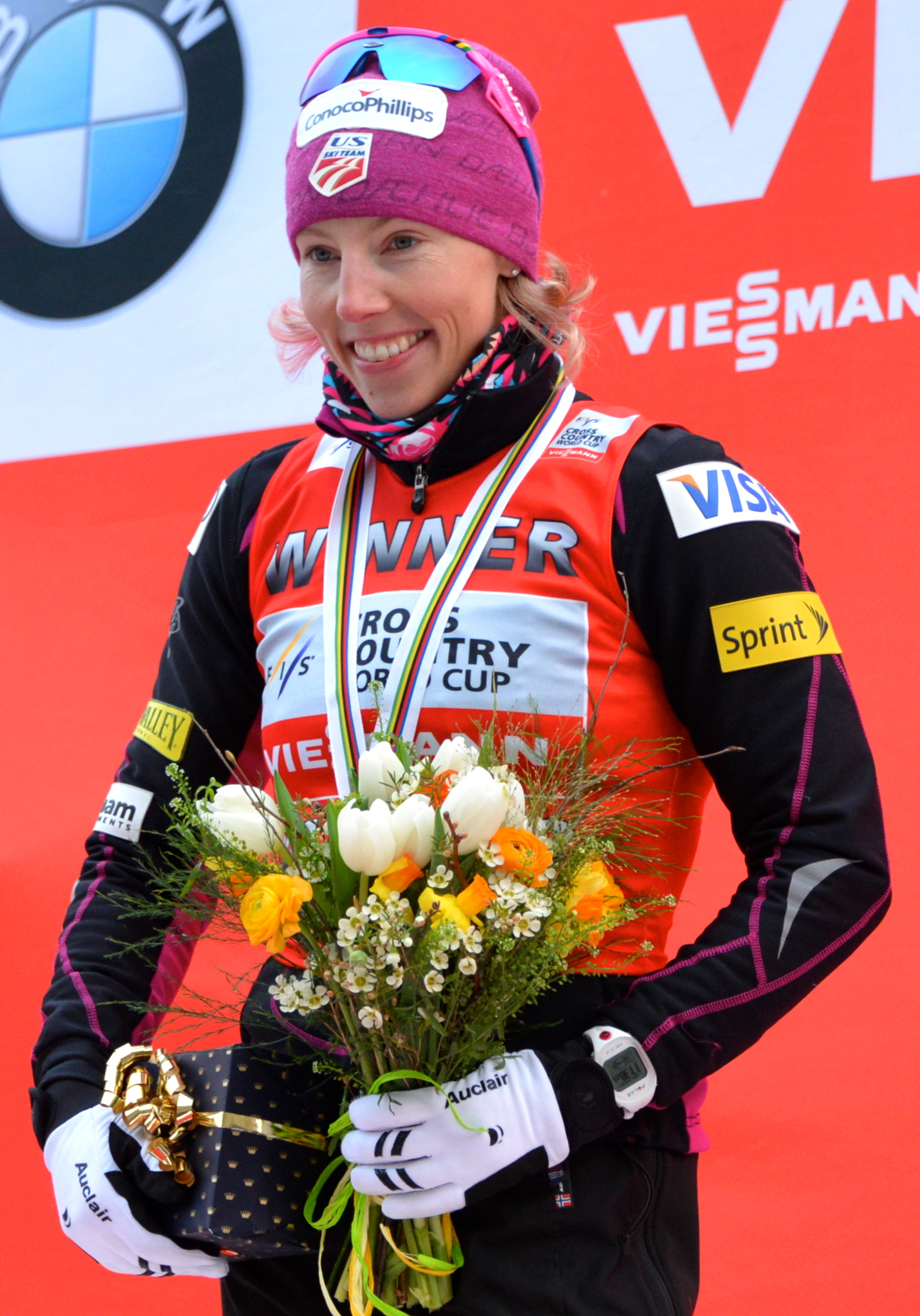 Kikkan Randall at the Royal Palace Sprint, part of the FIS World Cup 2012/2013, in Stockholm on March 20, 2013. Kikkan Randall won the sprint cup.